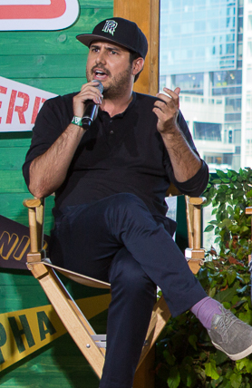 Cast & crew at the Power Rangers discussion Camp Conival offsite at Petco Park during San Diego Comic-Con 2016. From left: Dan Casey (moderator), Dean Israelite, Dacre Montgomery, RJ Cyler, Naomi Scott, Becky G and Ludi Lin